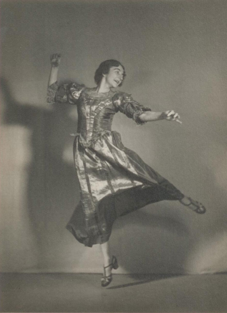 Irmgard Bartenieff in Sarabande pour Femme, a dance reconstructed from Raoul Auger Feuillet's Choreographie (1700).